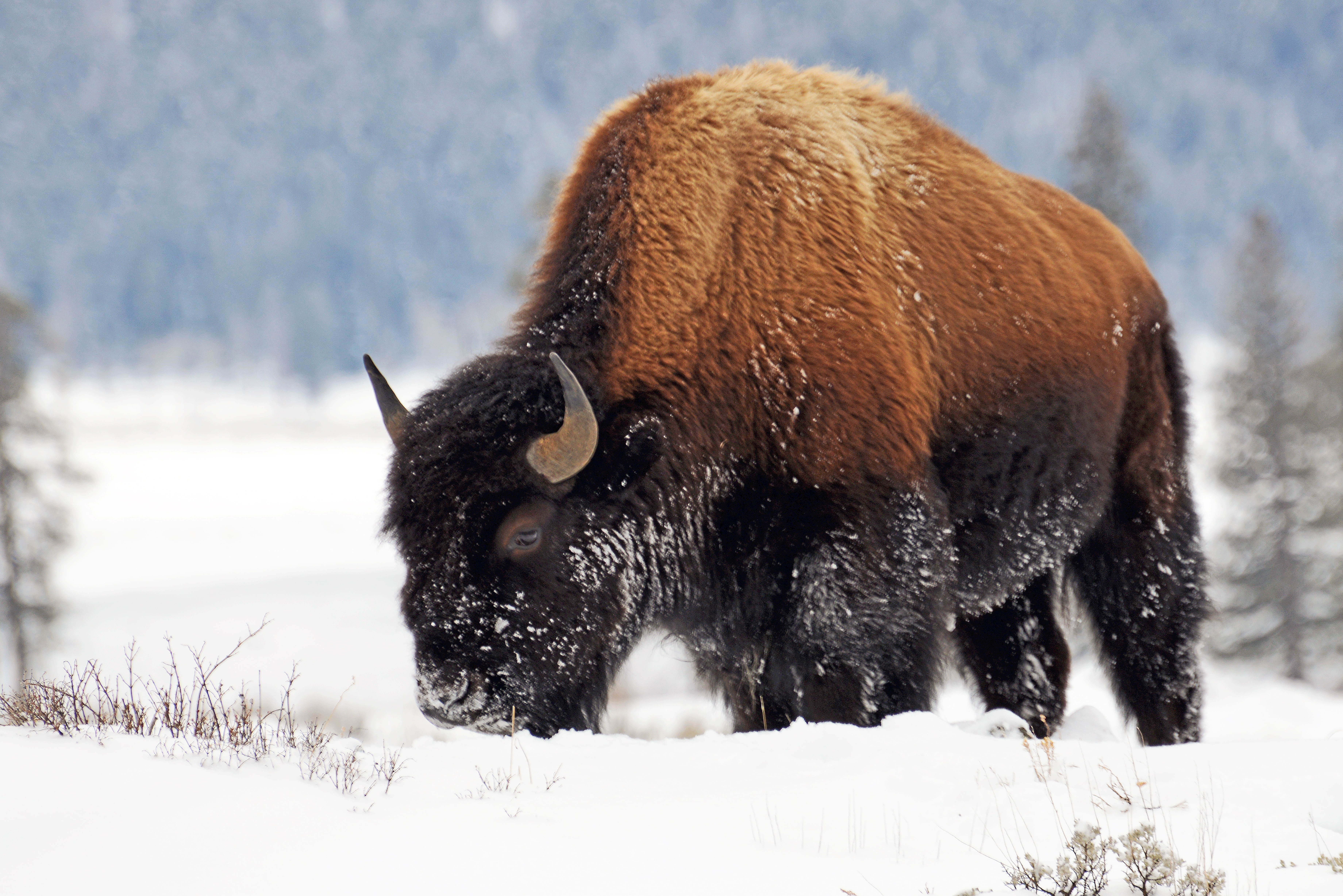 In the Lamar Valley of Yellowstone National Park - Bison